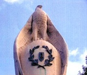 Buzancy Memorial